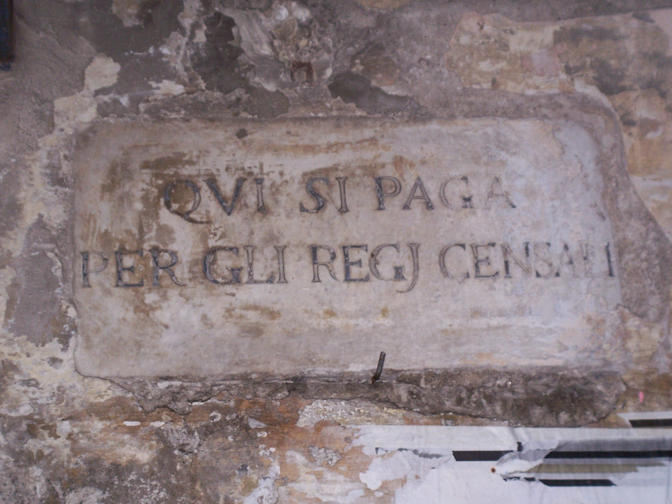 Iscrizione al Dazio di Antignano: "Here you pay for the King's duty"